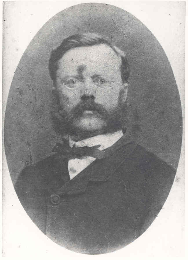 Guntram Hämmerle, Member of the Landtag of Vorarlberg (1869–1870).